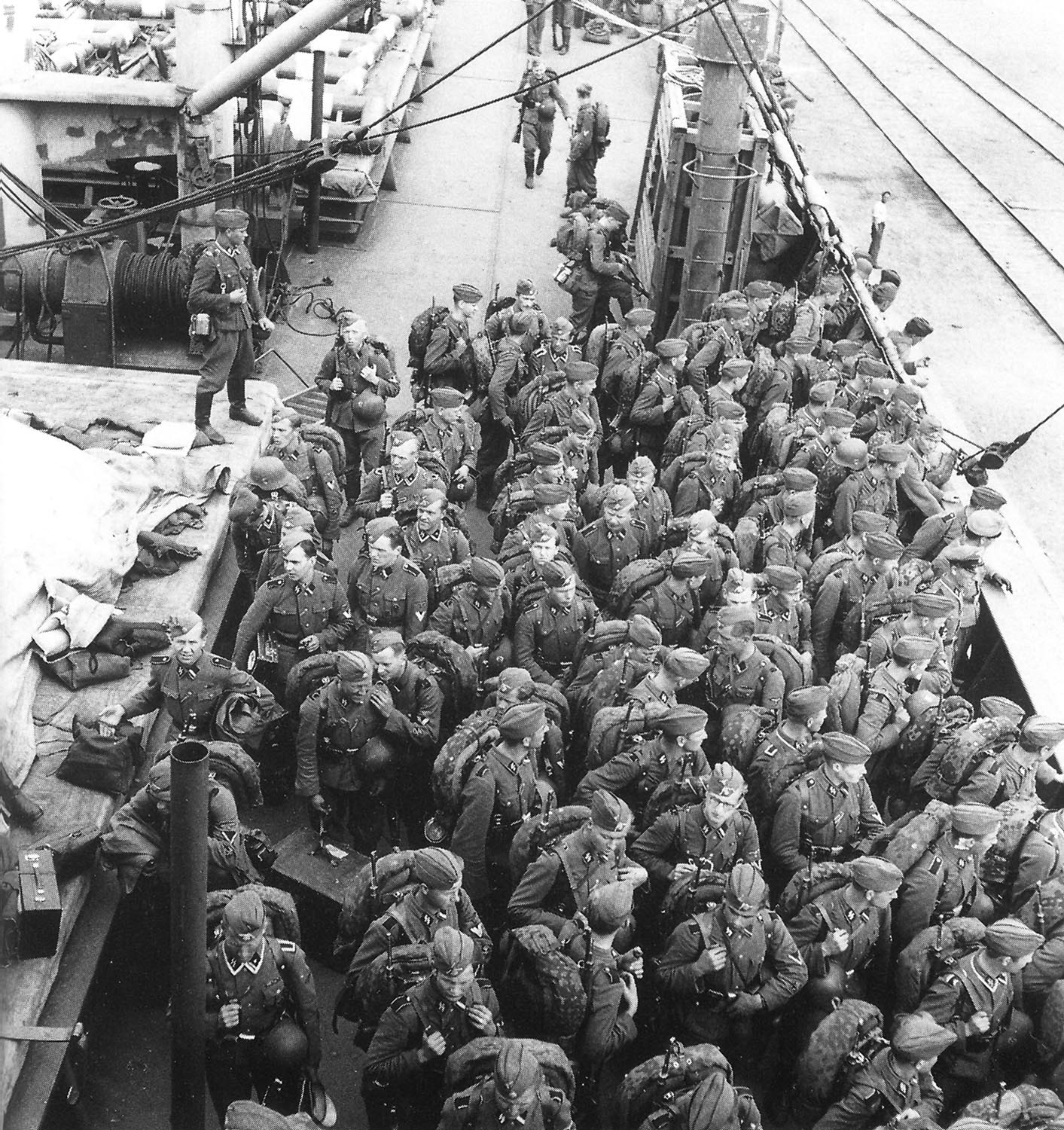 Finnish Waffen-SS has returned.